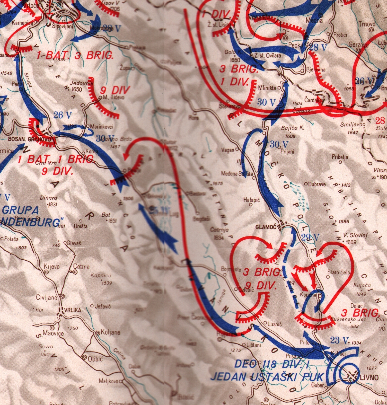 cropped map showing the deployment and lines of attack of the 369th Reconnaissance Regiment and 105th SS Reconnaissance Regiment on 25 May 1944 during Operation Rösselsprung